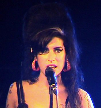 Amy Winehouse performing in Berlin in 2007